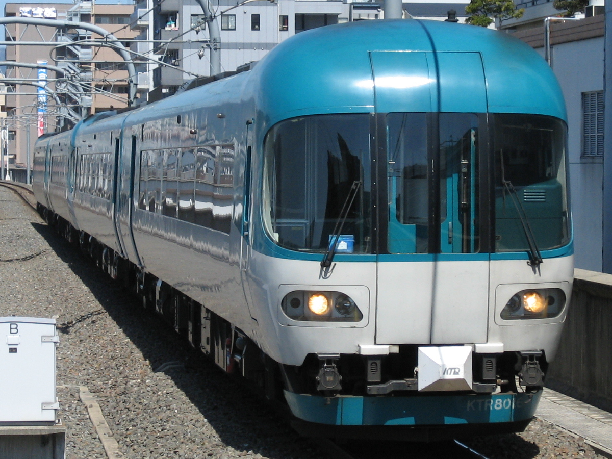 Kitakinki Tango Railway KTR 8000 series DMU (location unknown)